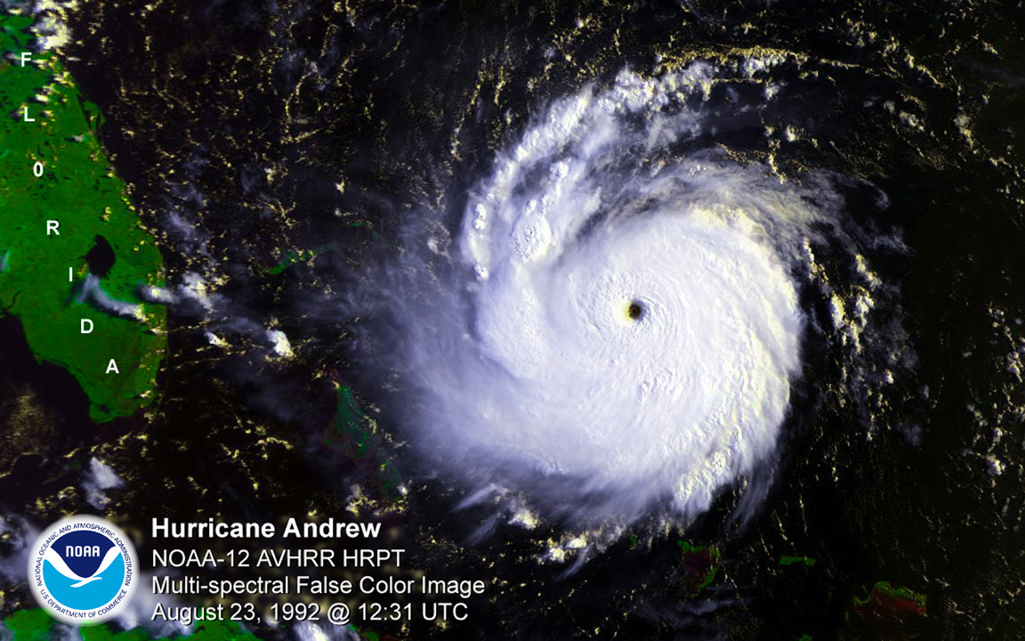 Hurricane Andrew at Category 5 strength, and approaching the Bahamas and Miami, Florida on August 23, 1992.